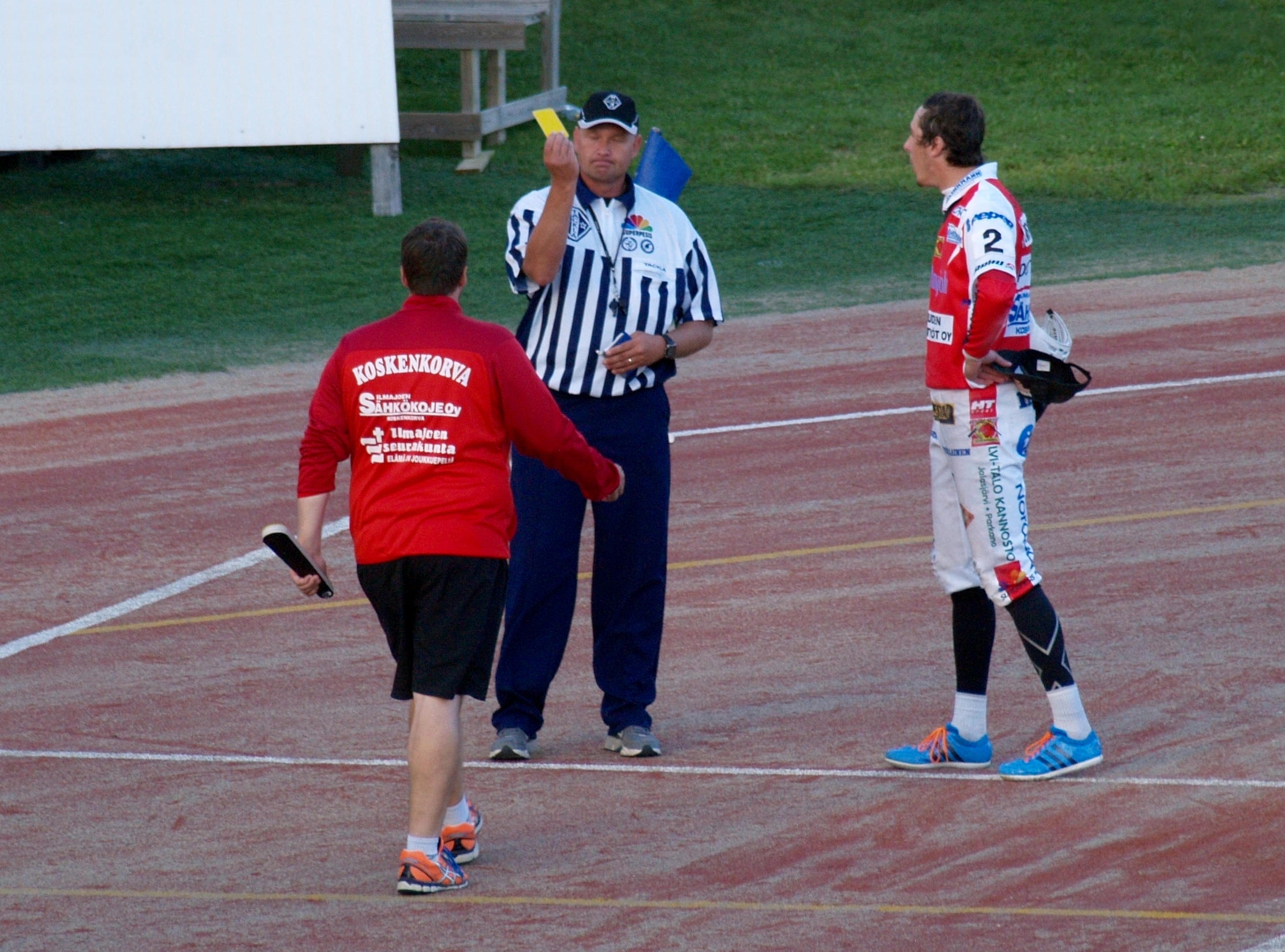 Yellow card. Vimpelin Veto versus Koskenkorvan Urheilijat pesäpallo-match, August 1 2014.